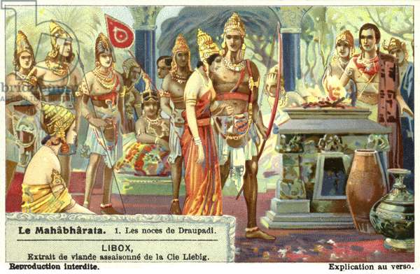 Details IMAGE number LLM5226285 Title Scene from the Hindu epic poem the Mahabharata: the wedding of Draupadi (chromolitho) Artist European School, (20th century) / European Location Private Collection Medium chromolithograph Date (C20th) Description Scene from the Hindu epic poem the Mahabharata: the wedding of Draupadi. Liebig card, early 20th century. Photo credit © Look and Learn / Bridgeman Images Keywords educational / woman / religion / religious / cards / Indian / poem / poetry / literature / Hindu / historical / card / history / marriage / wedding / princess / epic / Sanskrit / Itihasa / Mahabharata / Draupadi